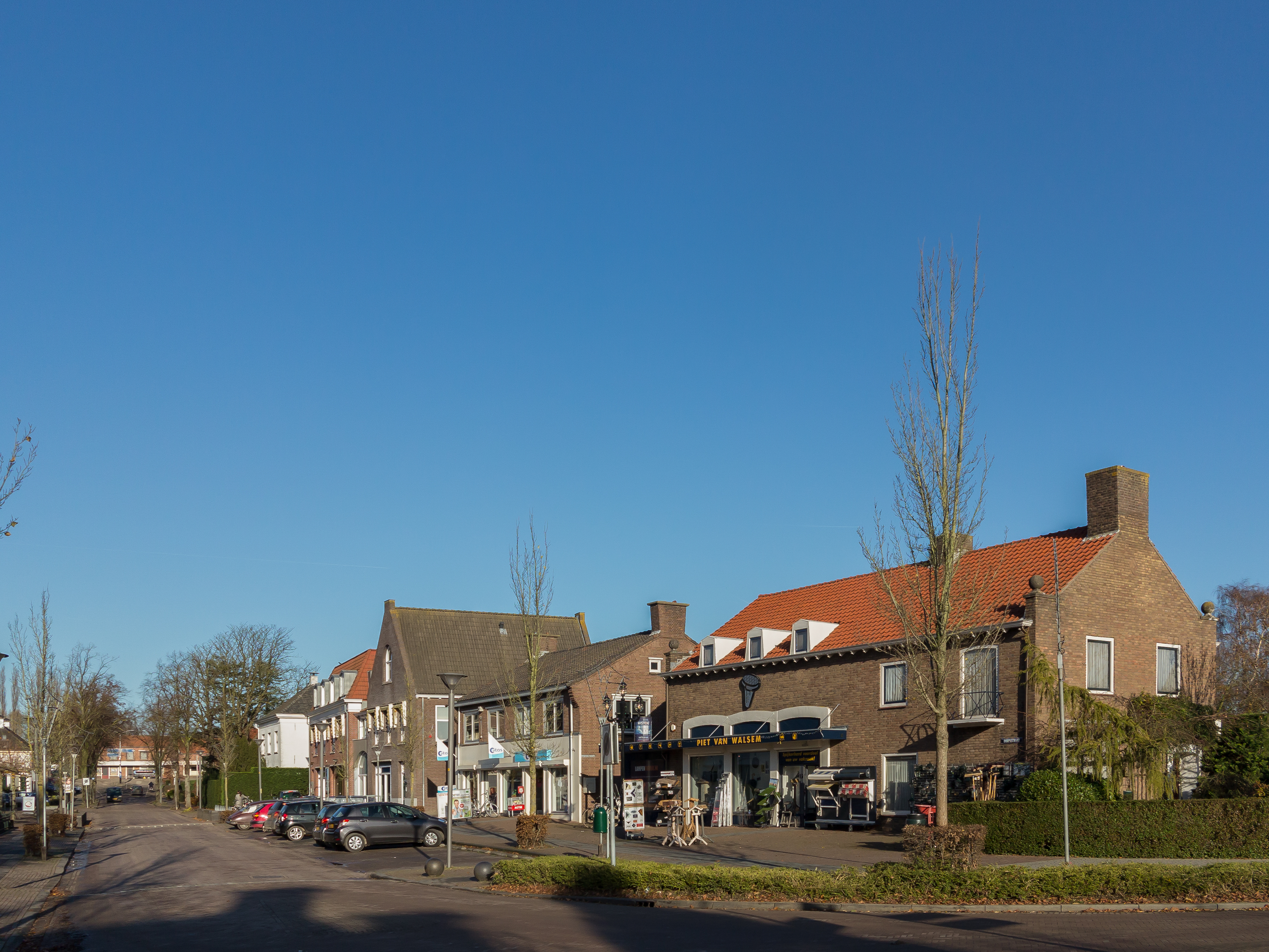 Opheusden, view to a street: de Dorpsstraat